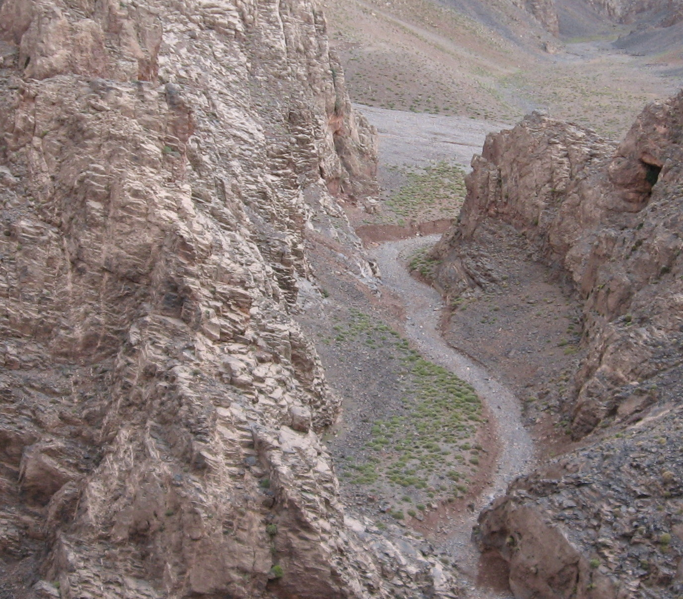 Photograph taken by Wikipedia contributor InnocentsAbroad in July, 2006